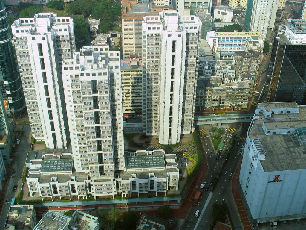 荃灣 寶石大廈 Bo Shek Mansion, Tsuen Wan